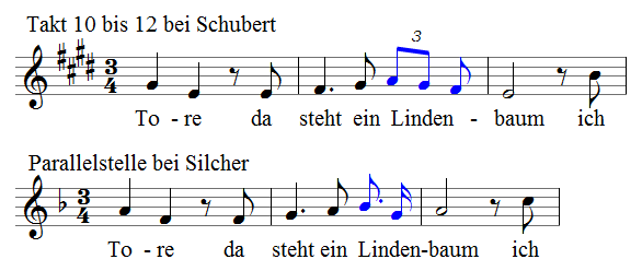 Bars 10-12 from Franz Schuberts song "Der Lindenbaum" from the songcycle "Winterreise" an the parallel part in Silchers choir version